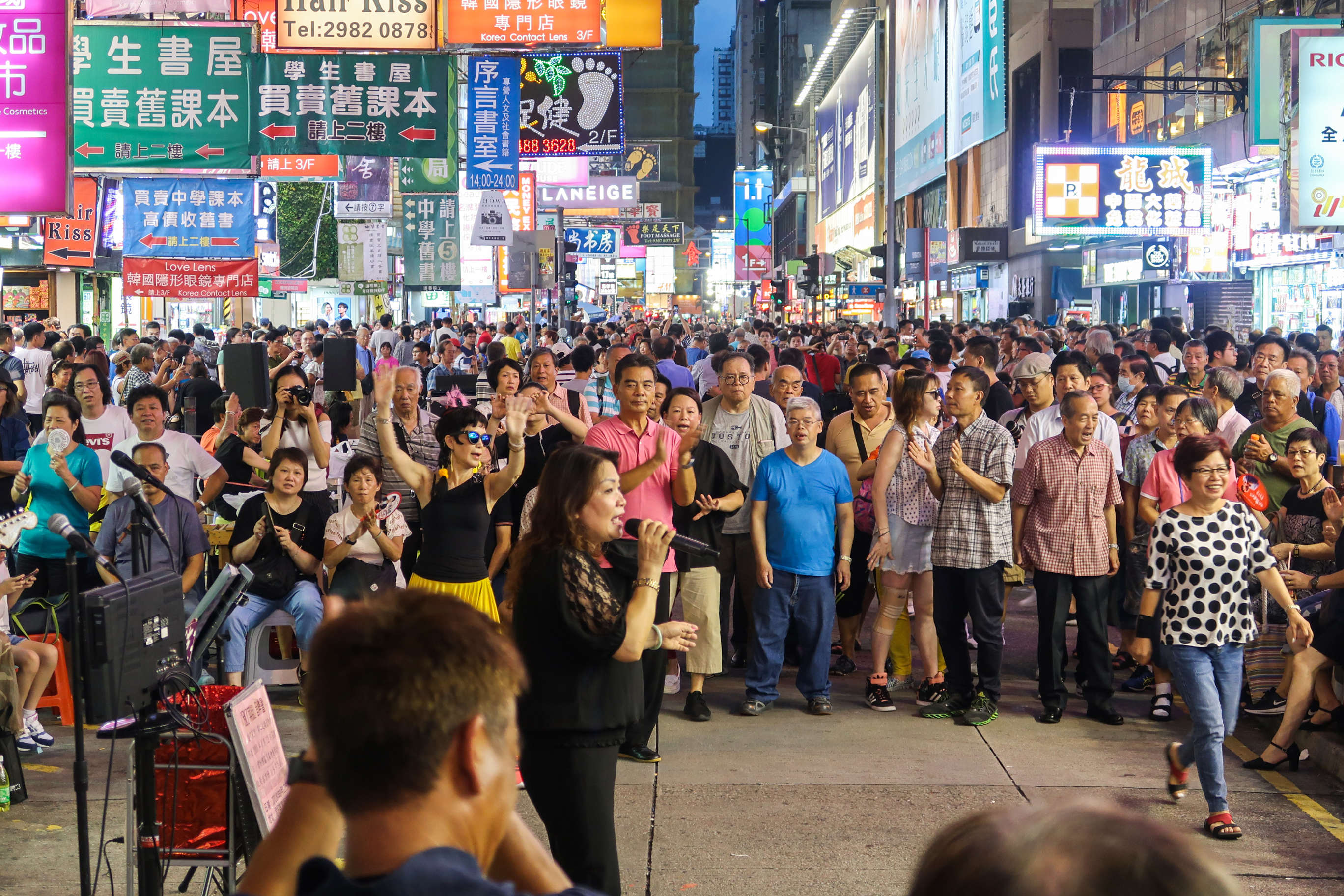 Sai Yeung Choi Street South last day performance